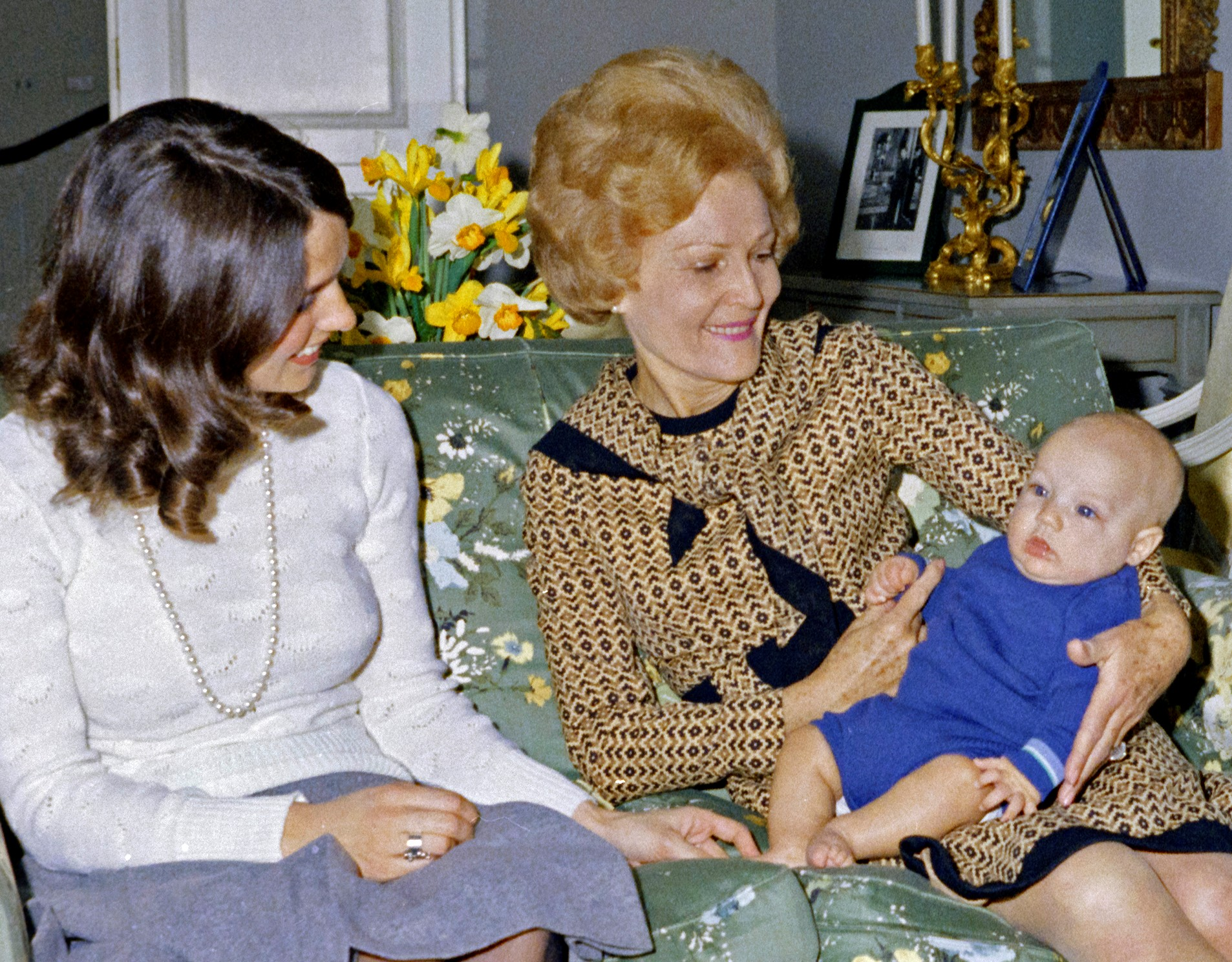 Margaret Sinclair, Pat Nixon and Justin Trudeau in Government House, Ottawa.